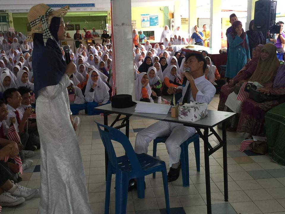 lakonan pelajar